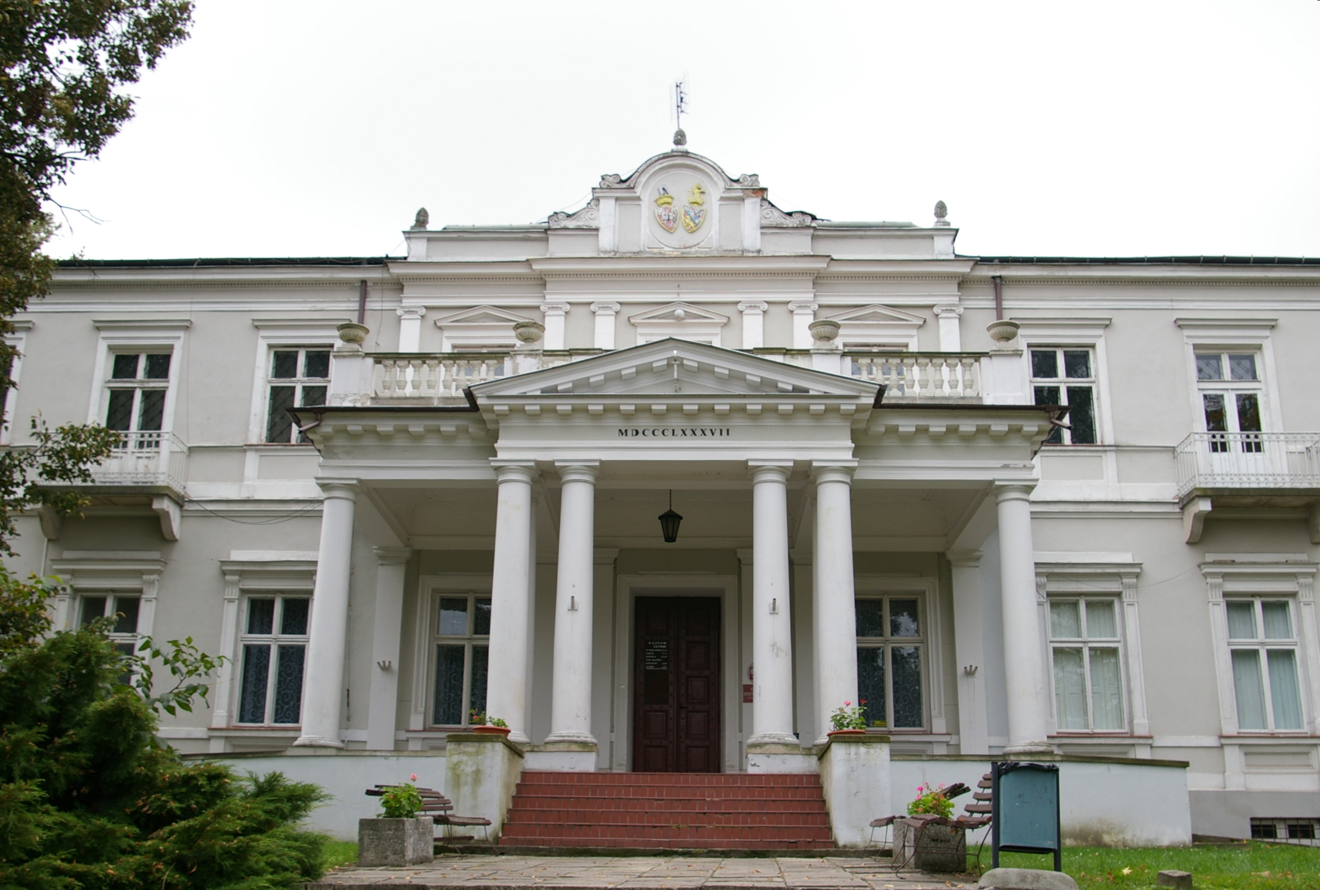 Museum in Ostrowiec Świętokrzyski